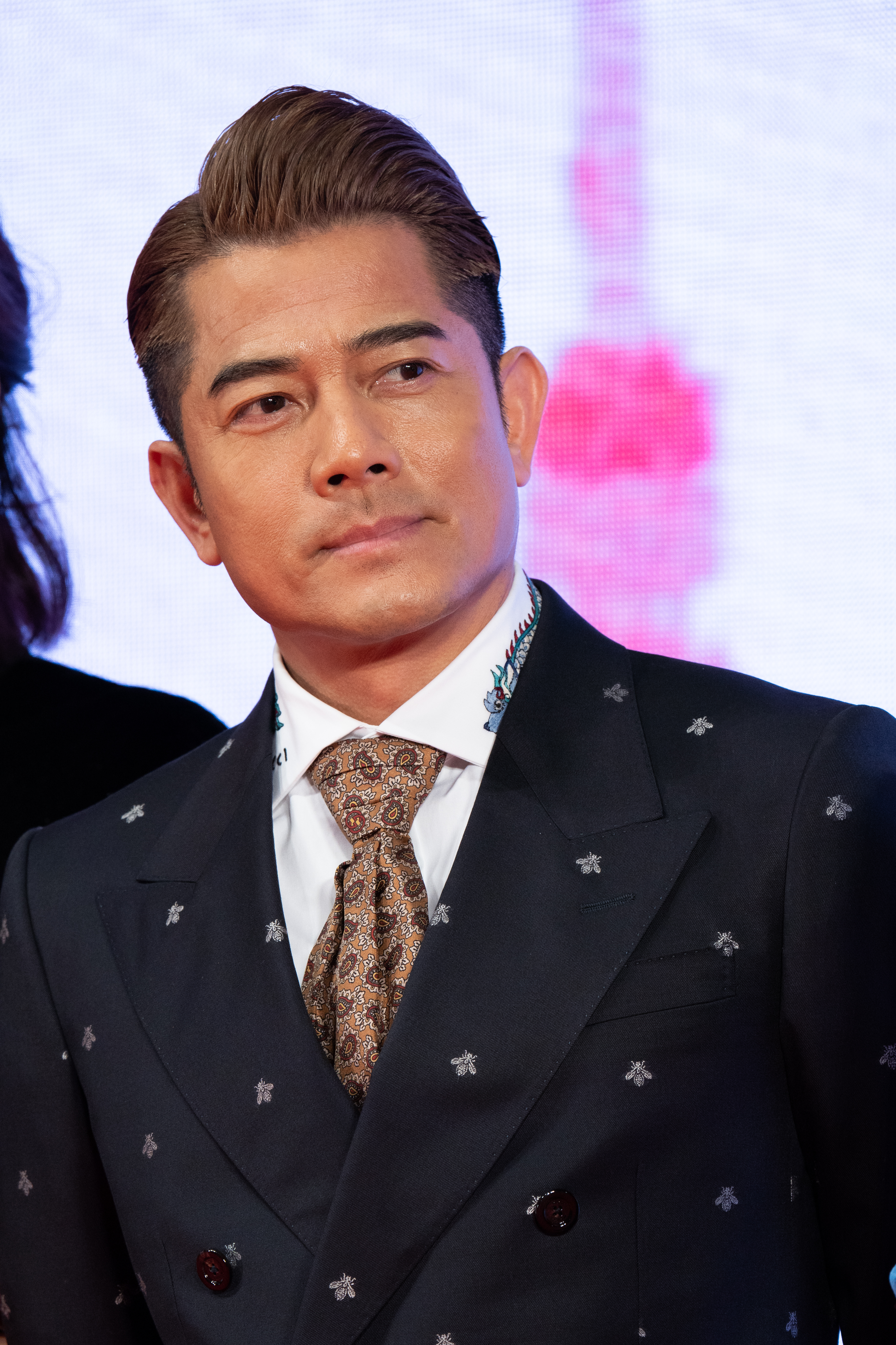 Aaron Kwok from "i'm livin' it" at Opening Ceremony of the Tokyo International Film Festival.